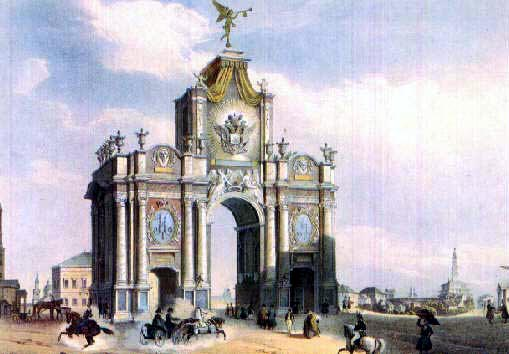 Red Gate in Moscow. Watercolour.